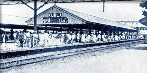 Scenes from Kurla: Passengers waiting at Kurla station in 1925